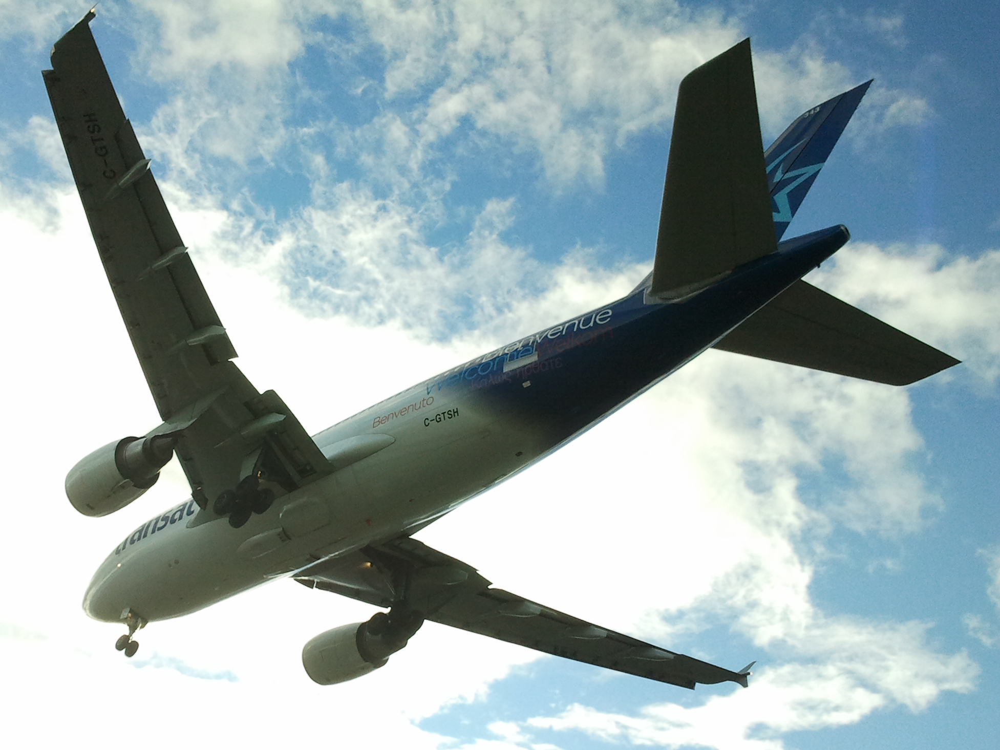 Air Transat A310 in new color landing at Montréal-Trudeau Airport